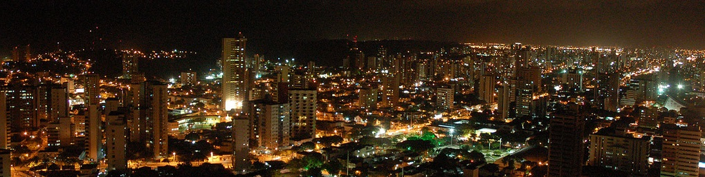 Petrópolis neighbourhood in Natal, Rio Grande do Norte, Brazil.